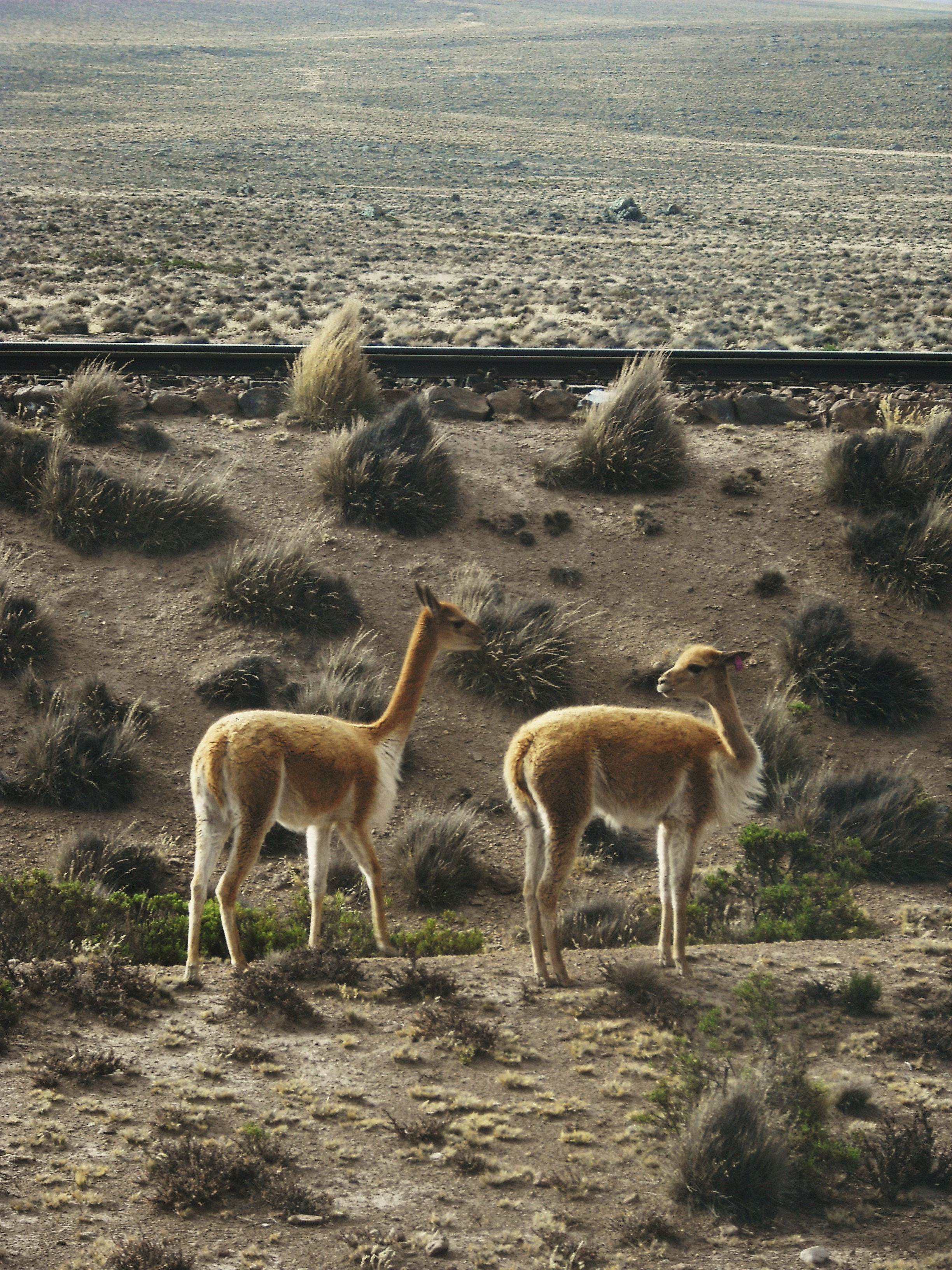 Vicugna vicugna, Salinas and Aguada Blanca National Reservations